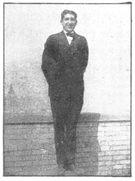 At the time this photograph was taken Carl Dreher was engineer-in-charge of the Radio Corporation of America radio broadcasting stations, WJY and WJZ, located in the Aeolian Hall building in New York City.